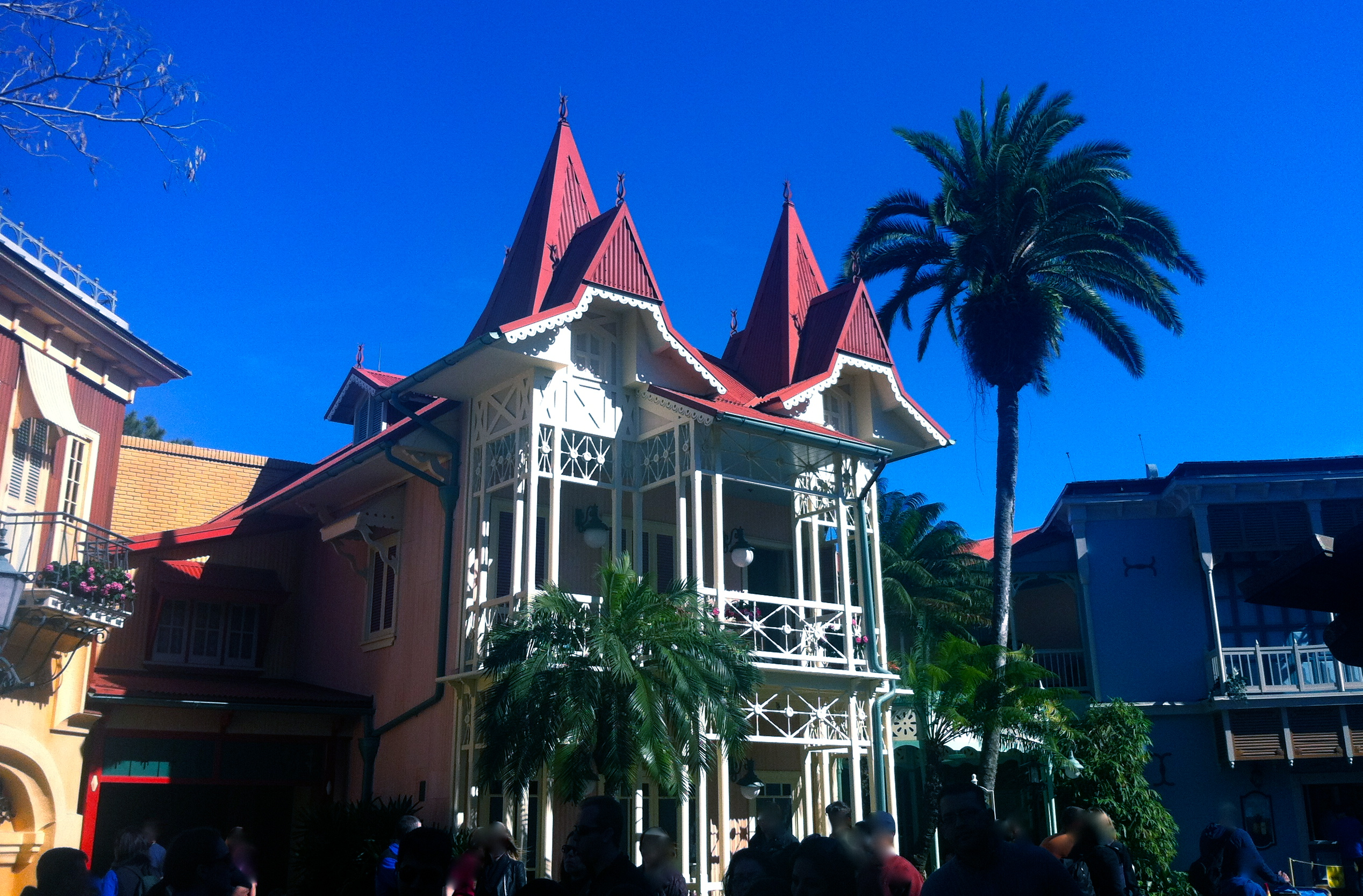 Adventureland or Trinidad?